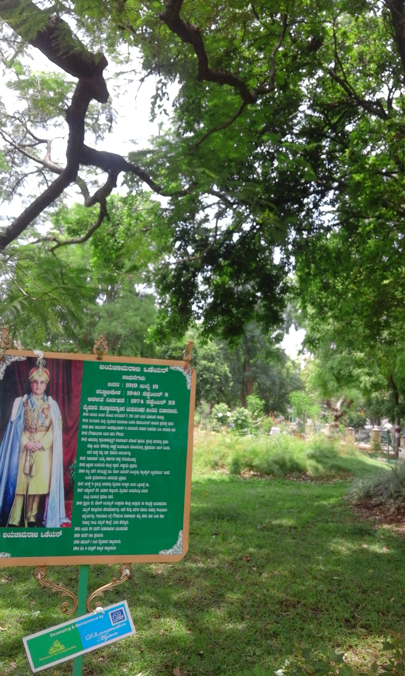 Mysore city, Karnataka province, India.